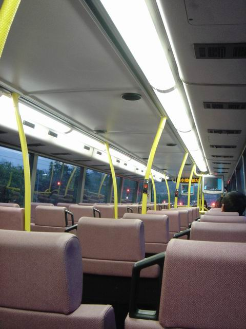 KMB VSO Interior - Photo by Jefferry.